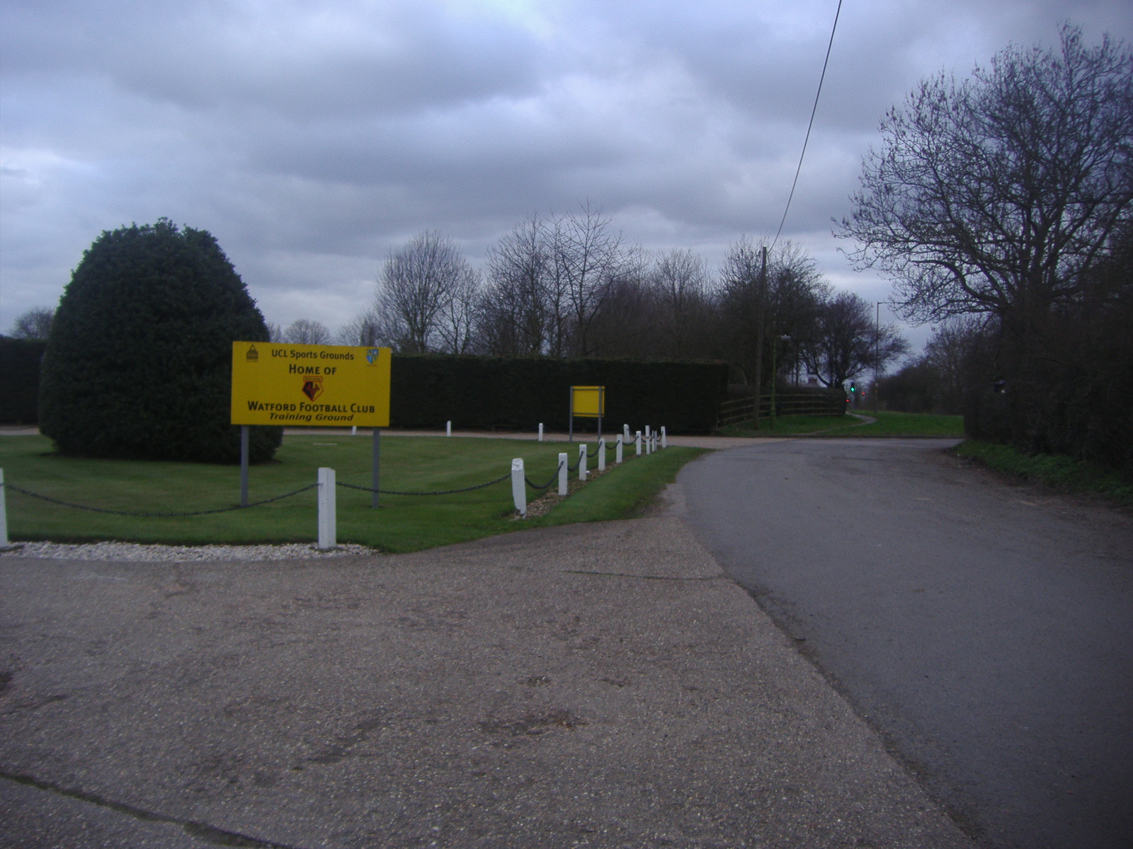 Entrance to Watford FC training ground, Bell Lane